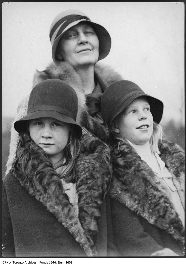 Flora MacCrea Eaton with her two youngest daughters, Florence Mary and the adopted Evlyn, at a Hunt Club meeting at the Eaton Hall estate in King City, Ontario, Canada.